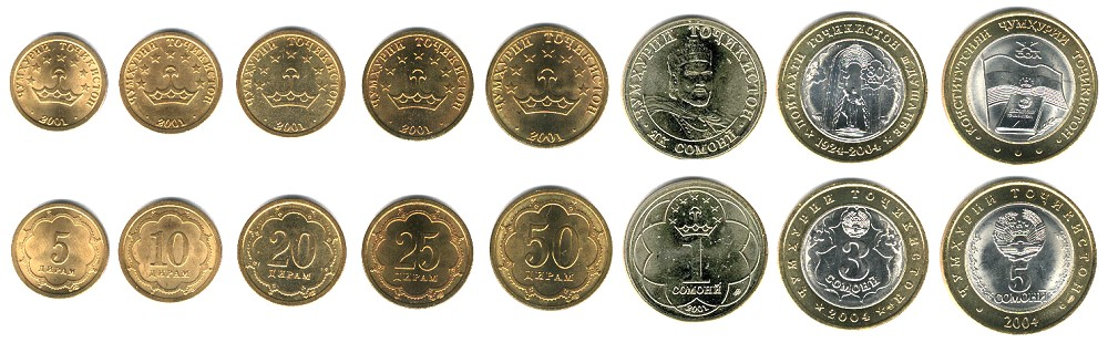 Coins of Tajikistan